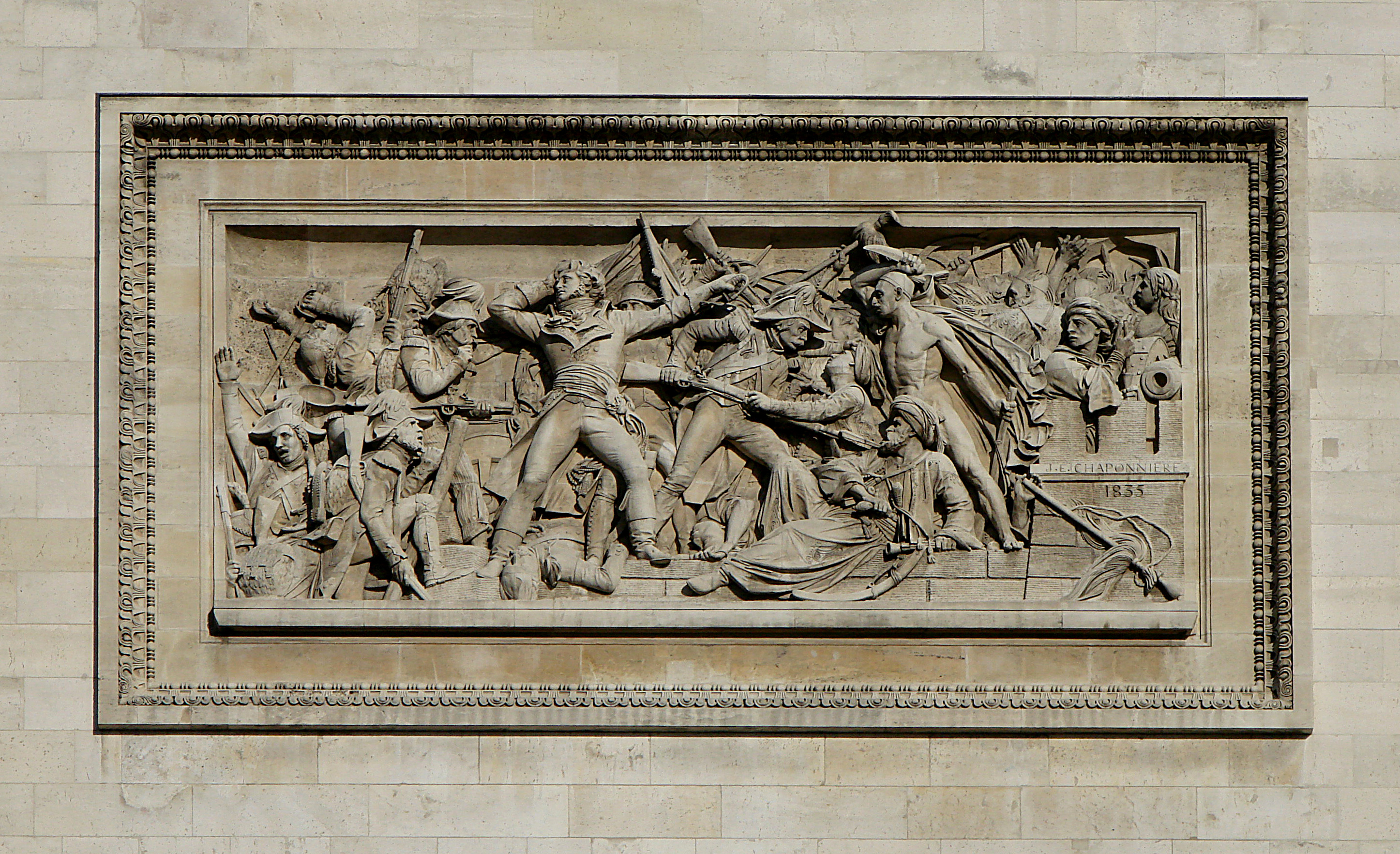 The Arc de Triomphe de l'Étoile in Paris, seen from the avenue de la Grande-Armée. Upper relief of the left : Fall of Alexandria on 3 jul 1798 by J-E Chaponnière.